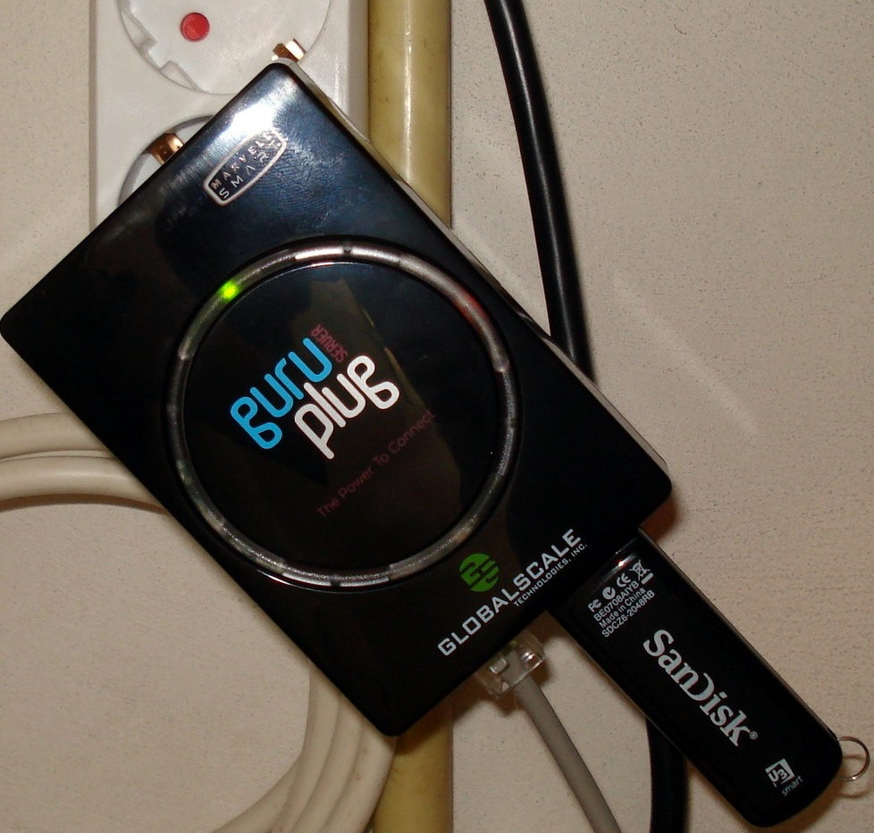 Author: Kees Wesselius Source: my camera Permission: both commercial reuse and derivative works